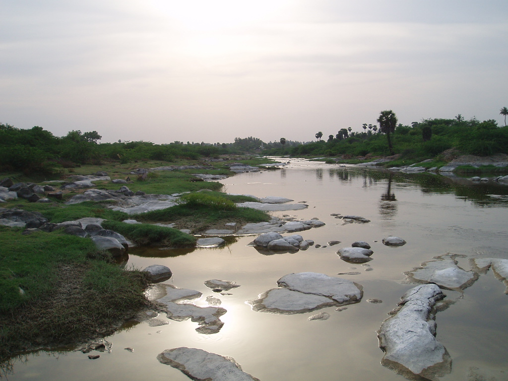 Once great river, now as sewage